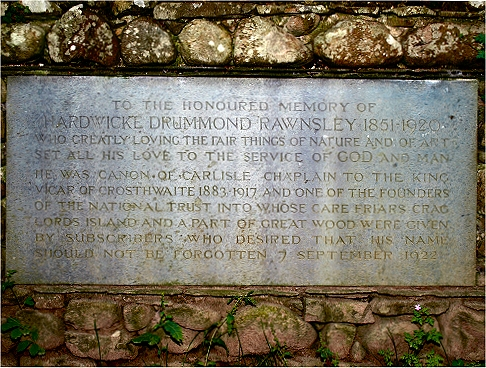 Picture of Rawnsley memorial stone at Friar's Crag, Keswick, photographed July 2009. Source: I created this work entirely by myself. Date: July 2009 Author: Tim riley (talk) 19:21, 25 July 2009 (UTC) Permission: (Reusing this image) See below.